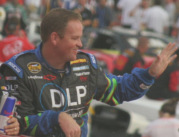 NASCAR driver Tony Raines in August 2007 at Bristol Motor Speedway